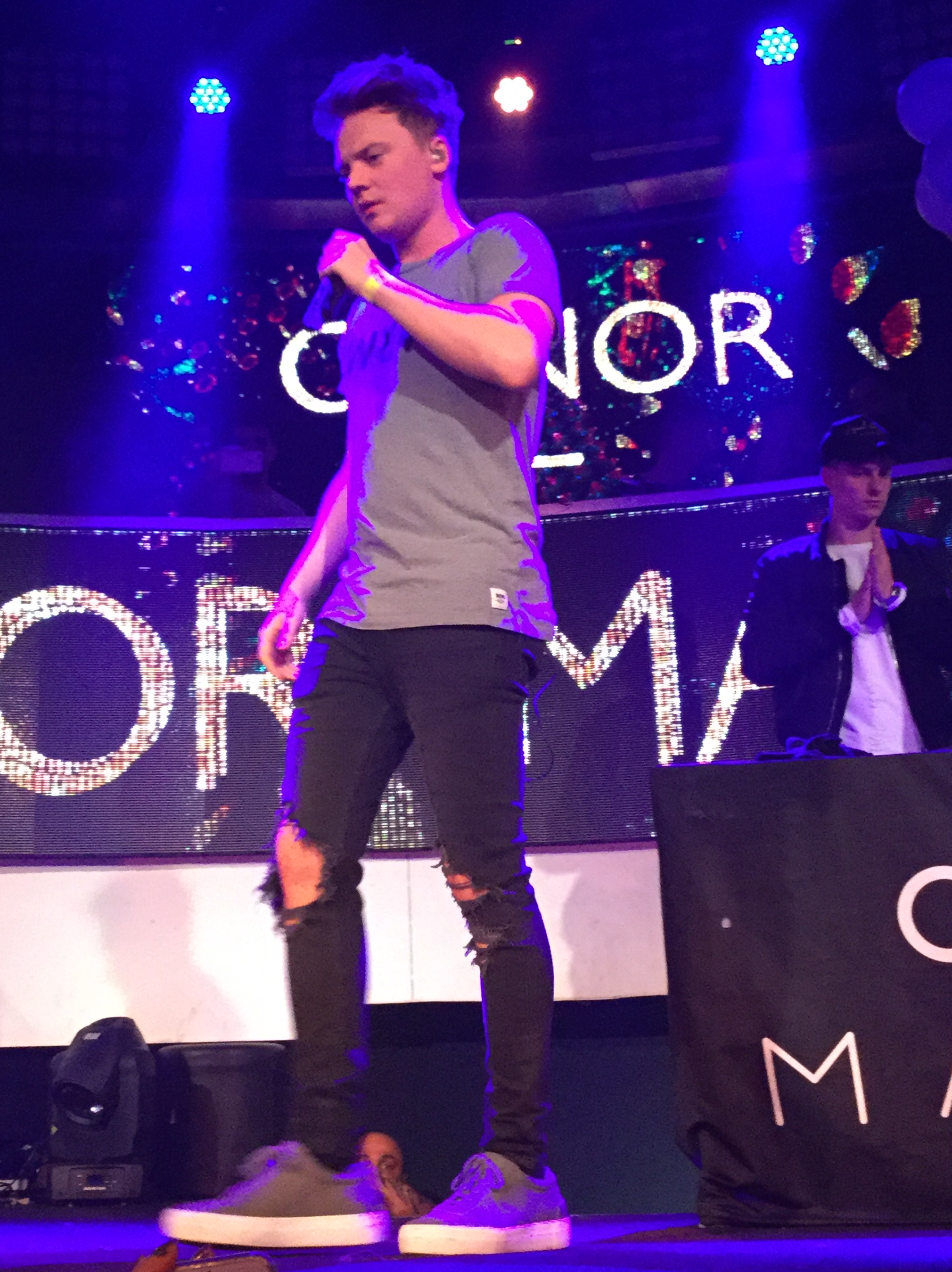 Conor Maynard during a performance at Club Blu in Rotterdam, 24/25th March 2017.